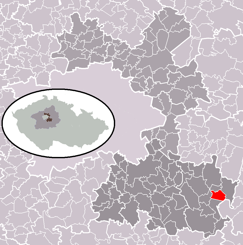 Location of Nučice municipality within Prague-East District and administrative area of Říčany as a Municipality with Extended Competence.